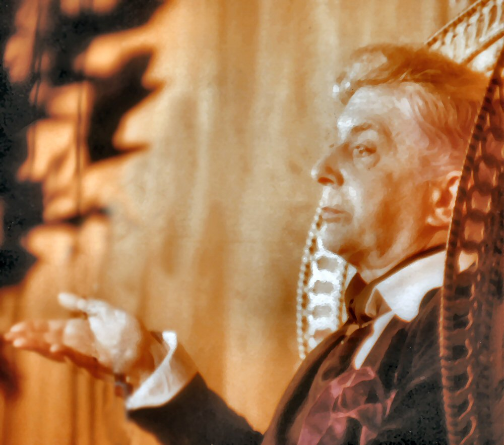 Quentin Crisp's the One Man Show. Birmingham c1982